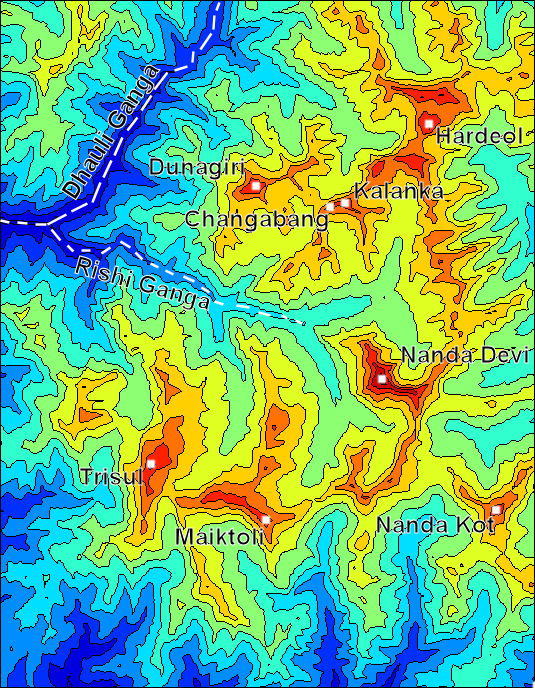 Color contour map of the Nanda Devi Sanctuary. Made using MATLAB from public SRTM data. Contour interval 500 metres, from 2000 m to 7500 m. Boundaries are Latitudes 30.65 N, 30.15 N; longitudes 79.65 E, 80.1 E.